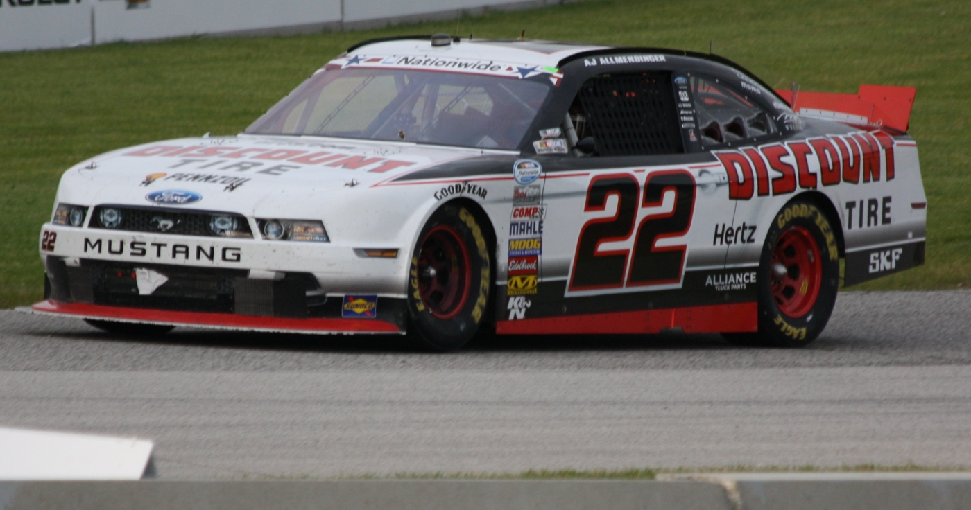 The NASCAR Nationwide car of A.J. Allmendinger during the w:2013 Johnsonville Sausage 200 at Road America. The team ended up winning the 2013 owner's championship.